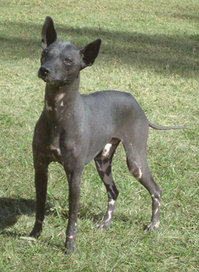 Perro Pila Argentino. Pilichy Caniza, altura, 37cm a la cruz. (height, 37cm at the withers)